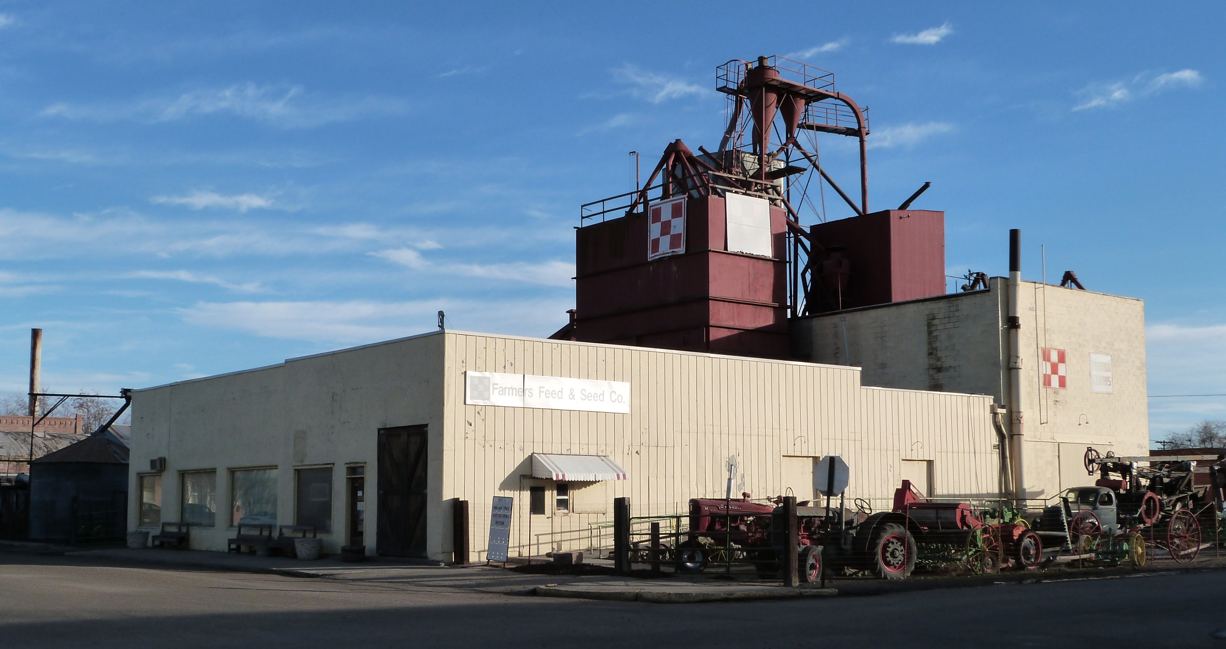 The historic Al Thompson & Son's Feed & Seed Company building (built 1938) — located at 117 Good Avenue in Nyssa, Oregon, United States. It currently houses the Oregon Trail Agriculture Museum. The building is listed on the US National Register of Historic Places.